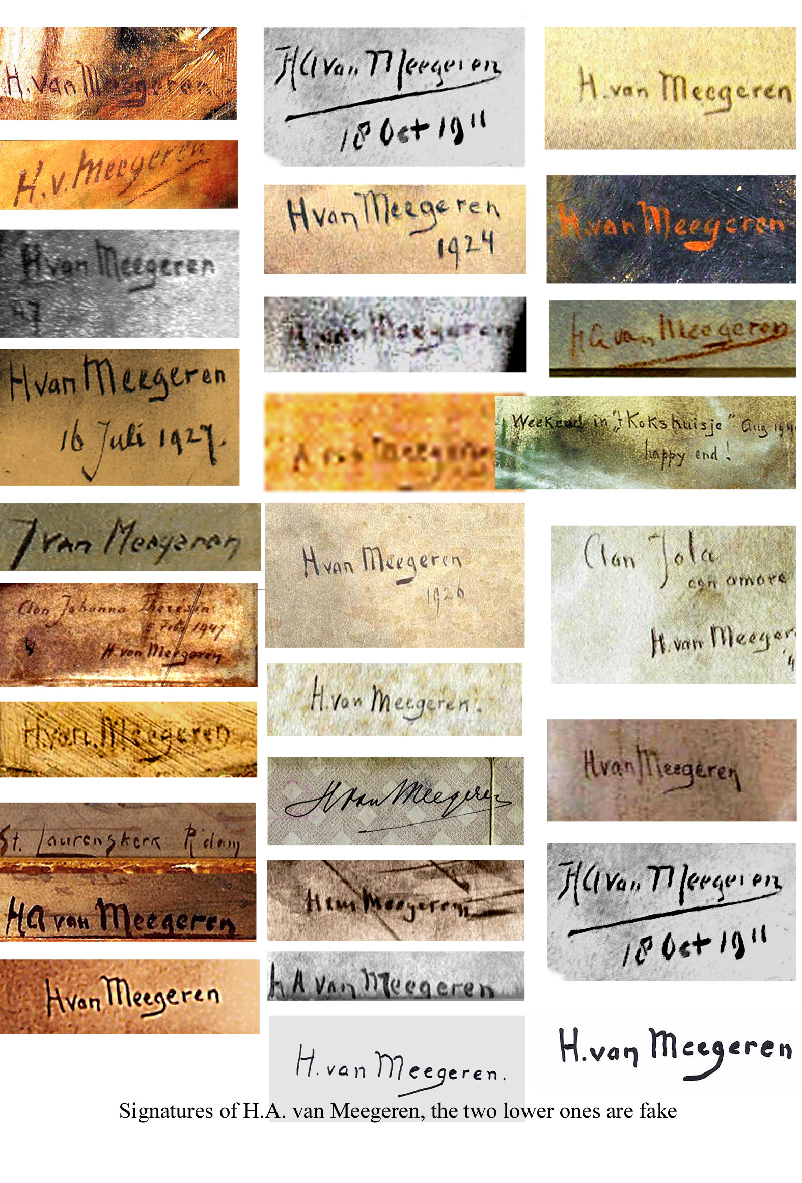 A collation of genuine and fake signatures that Han van Meegeren, the well-known art forger, used for his own work. A collation collected from many sources. The second one in the first column is suspect: pointed letters and a v. instead of a van. - The fifth one in the first column is of his son Jacques - the seventh in the middle collumn is from his identitycard - the bottom ones in centre and right-hand collumns are fakes